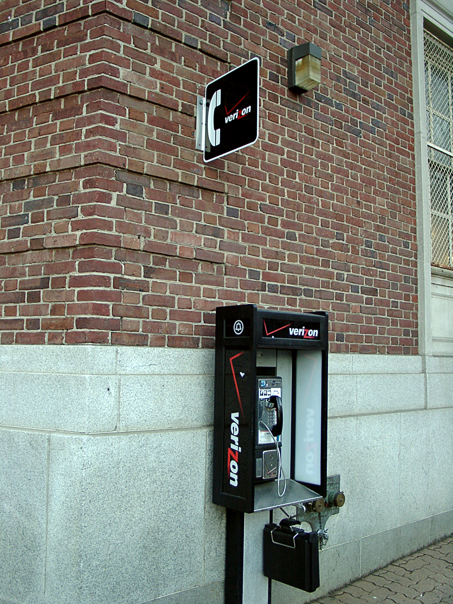 Picture of a payphone on Georgia Avenue in Silver Spring, MD